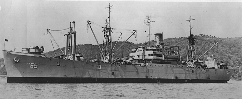 The U.S. Navy attack cargo transport USS Alshain (AKA-55) at anchor off Golfe-Juan, France, in 1950.